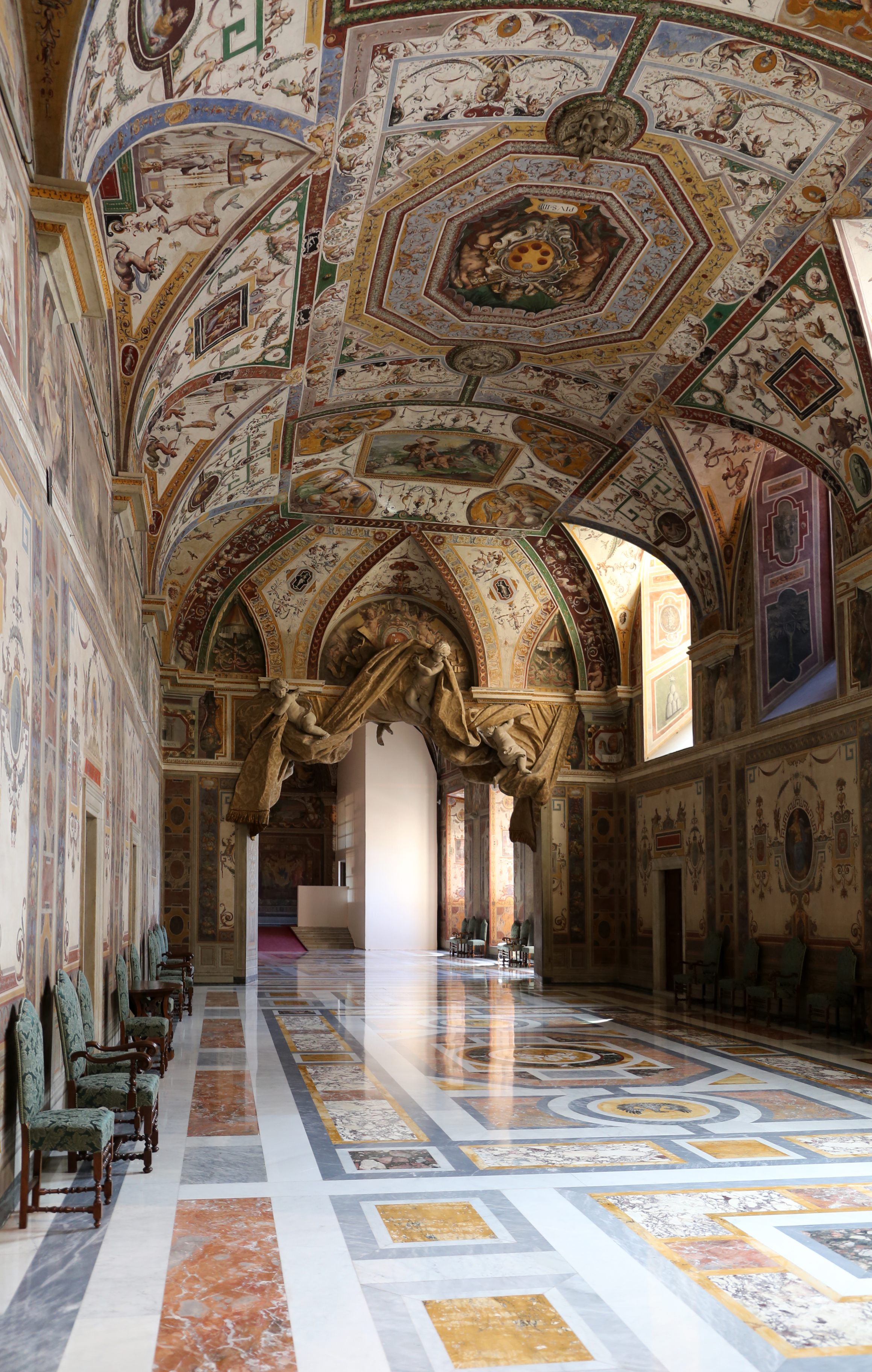 Sala Ducale